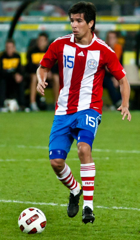 Victor Caceres playing for the Paraguay national football team in a friendly match against Australia at the Sydney Football Stadium.